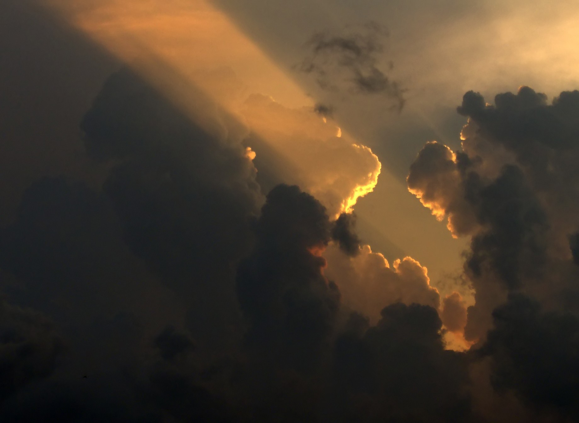 Sunset over the Vercors mountains, seen from Grenoble.